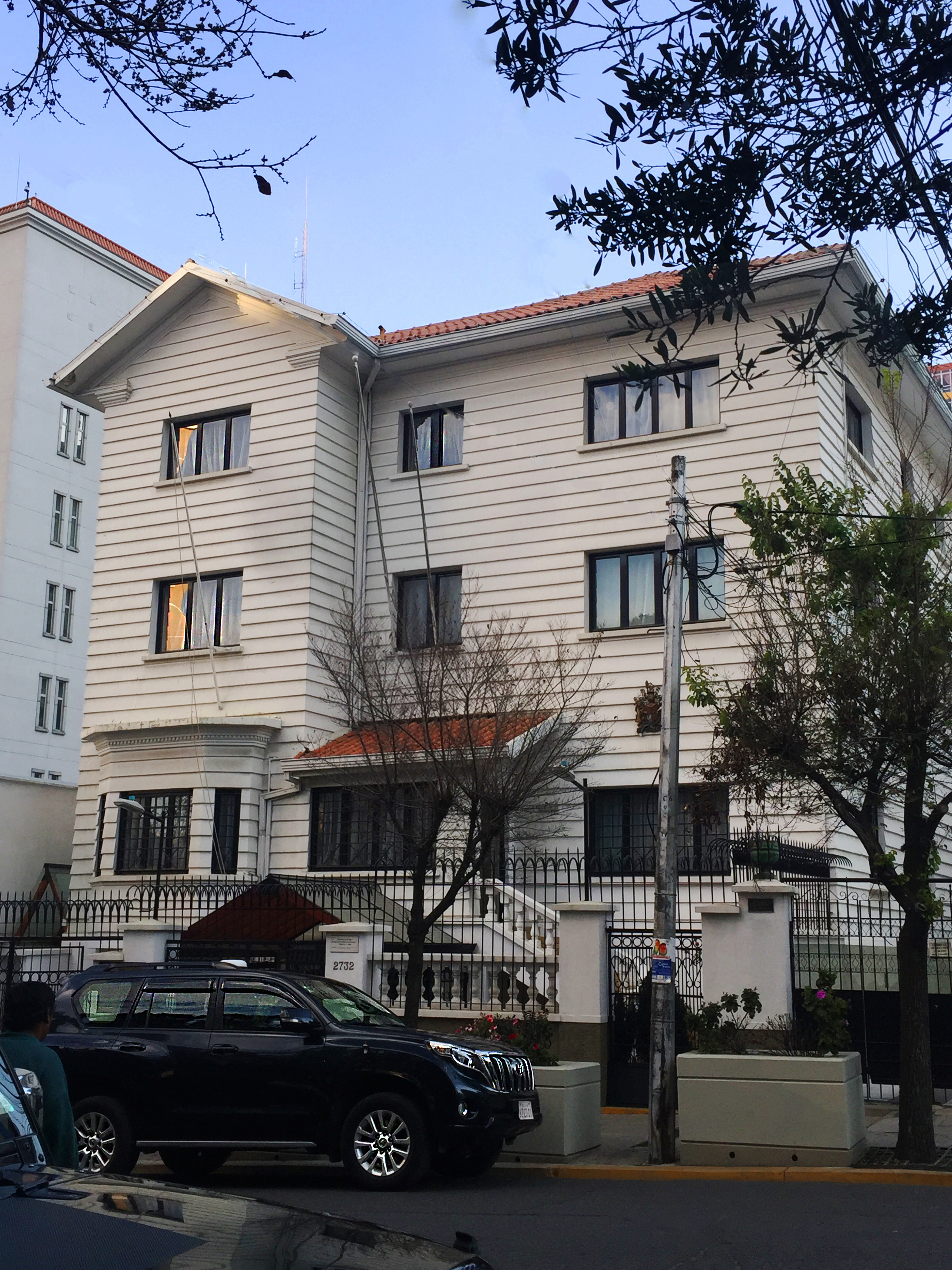 British Embassy in La Paz, Bolivia